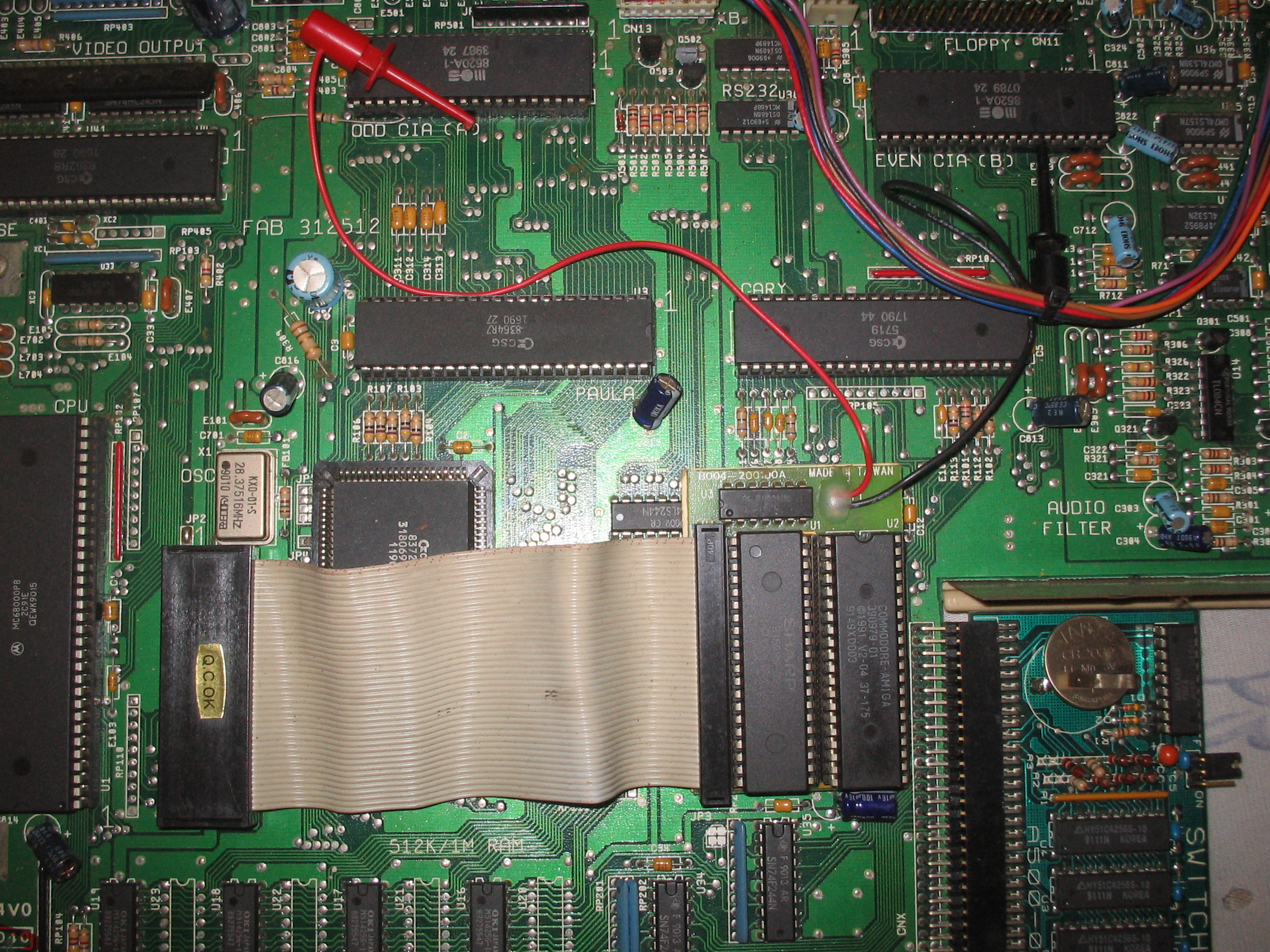 A ROM switcher for the Amiga 500 computer.